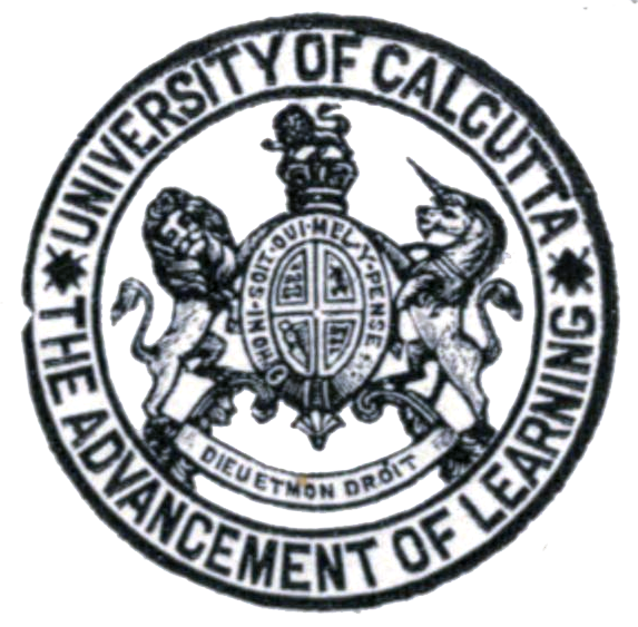 Diagram in The History of the Bengali Language